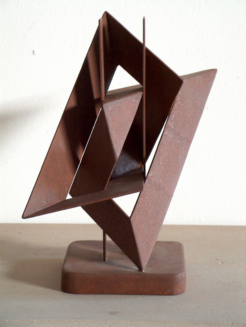 Steel sculpture by Kordula Klose, 1989